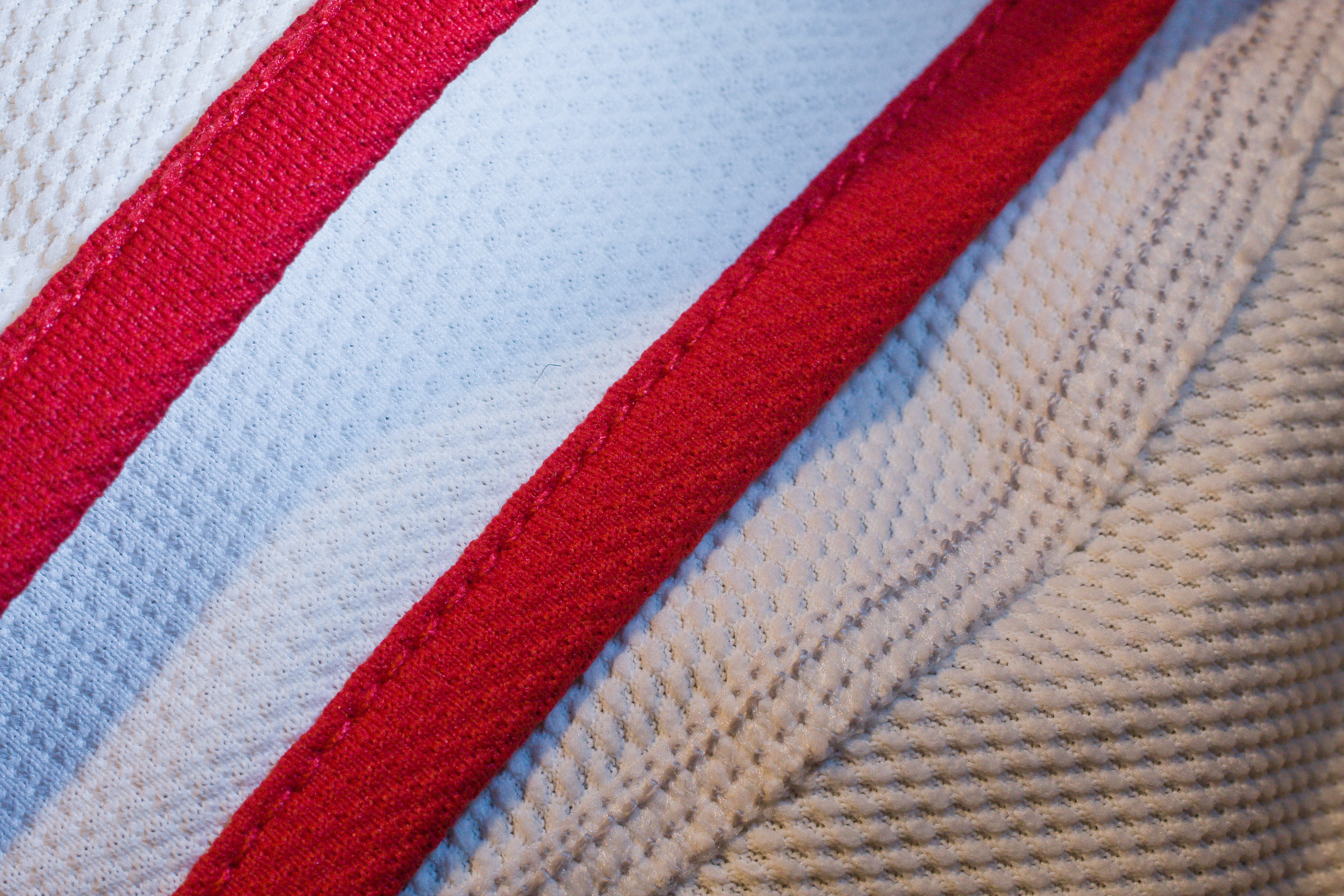 An image of moisture transferring garments reverse side, depicting the structure of fabric used in such garments.